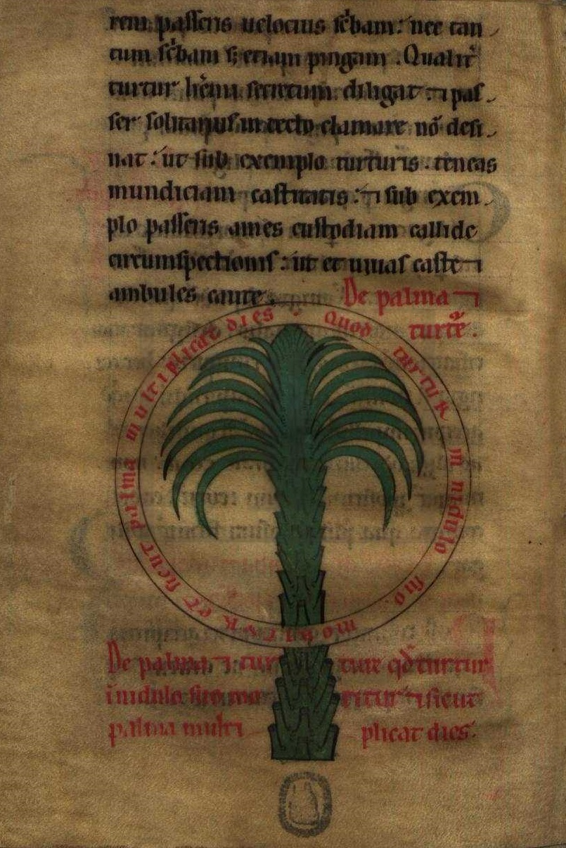 Livro das Aves: the Palm Tree